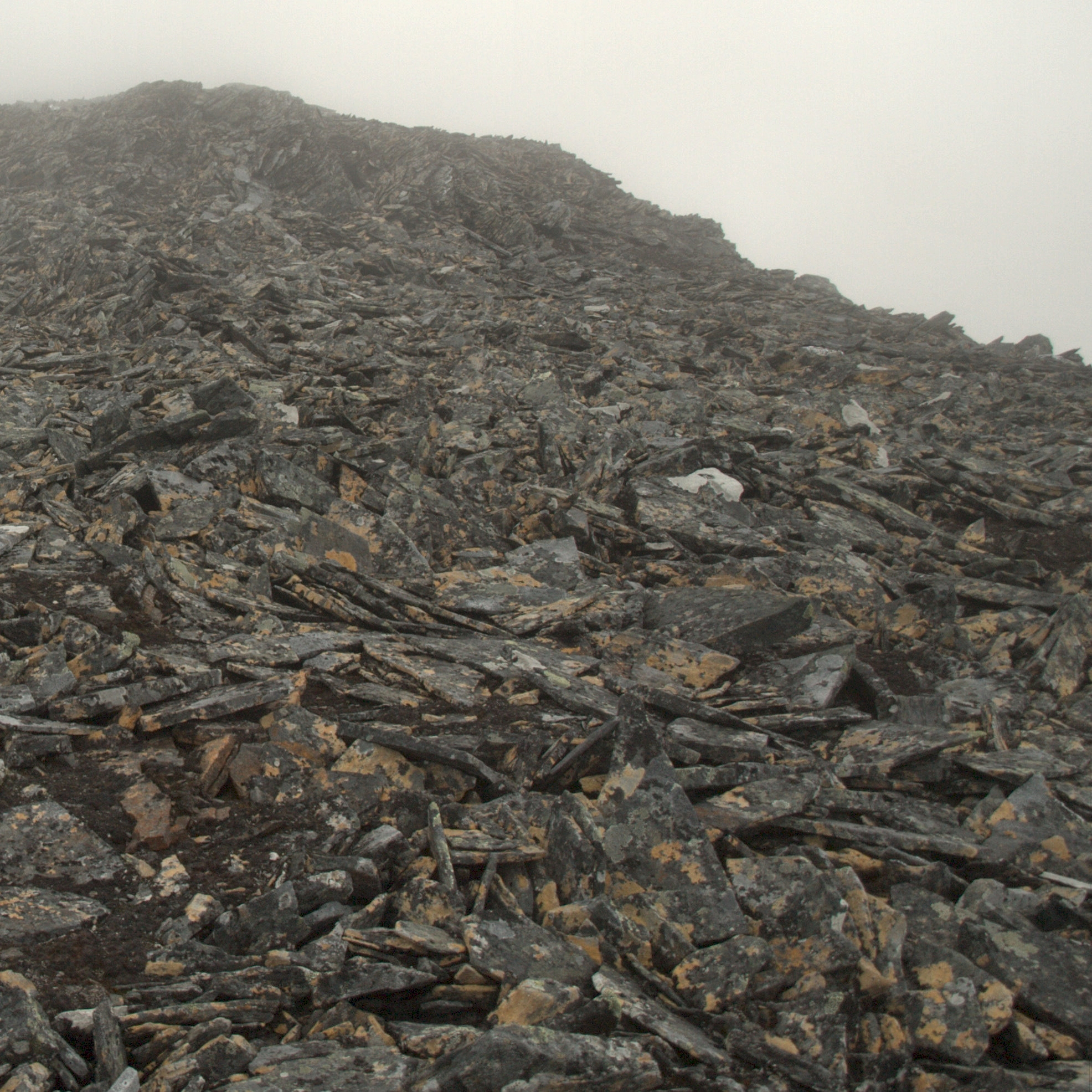 Rocky terrain in Stora Sjöfallet National Park, Sweden, at the ridge of Rappattjårro peak.